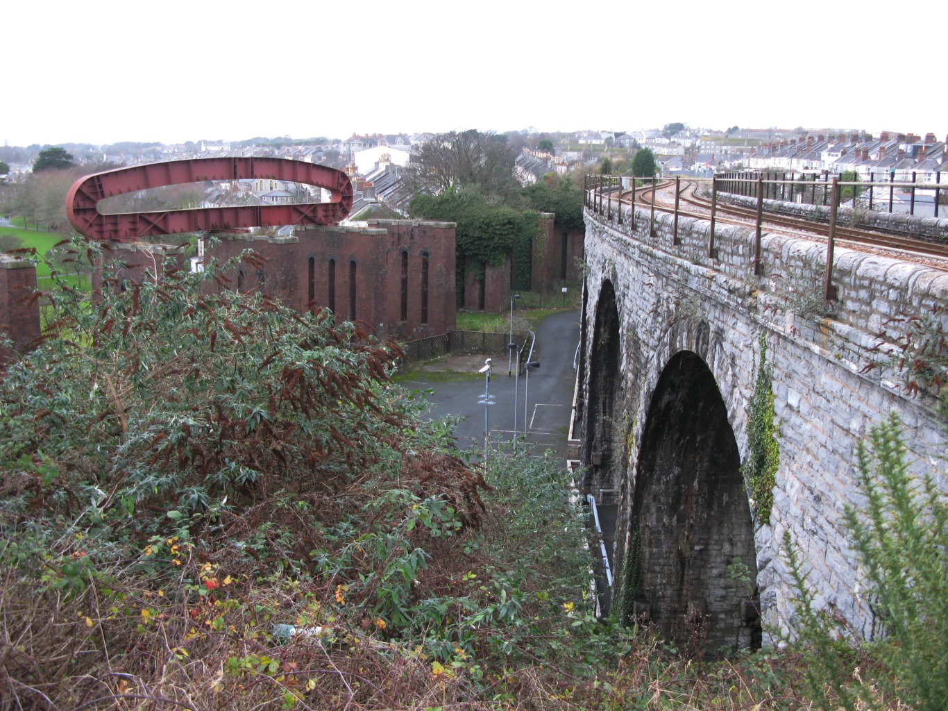 A Penzance to Plymouth train crosses Pennycomequick Viaduct on the Cornwall Loop Line approach to Plymouth (North Road) railway station. In the background are the remains of Stonehouse Pool Viaduct on the former route to Plymouth Millbay station, on top of which is now an artwork representing the Sea Wall section of the South Devon railway.